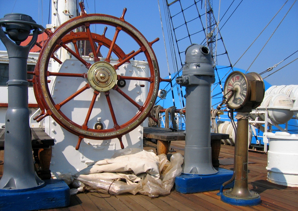 Gorch Fock (1933) Steering wheel and Chadburn